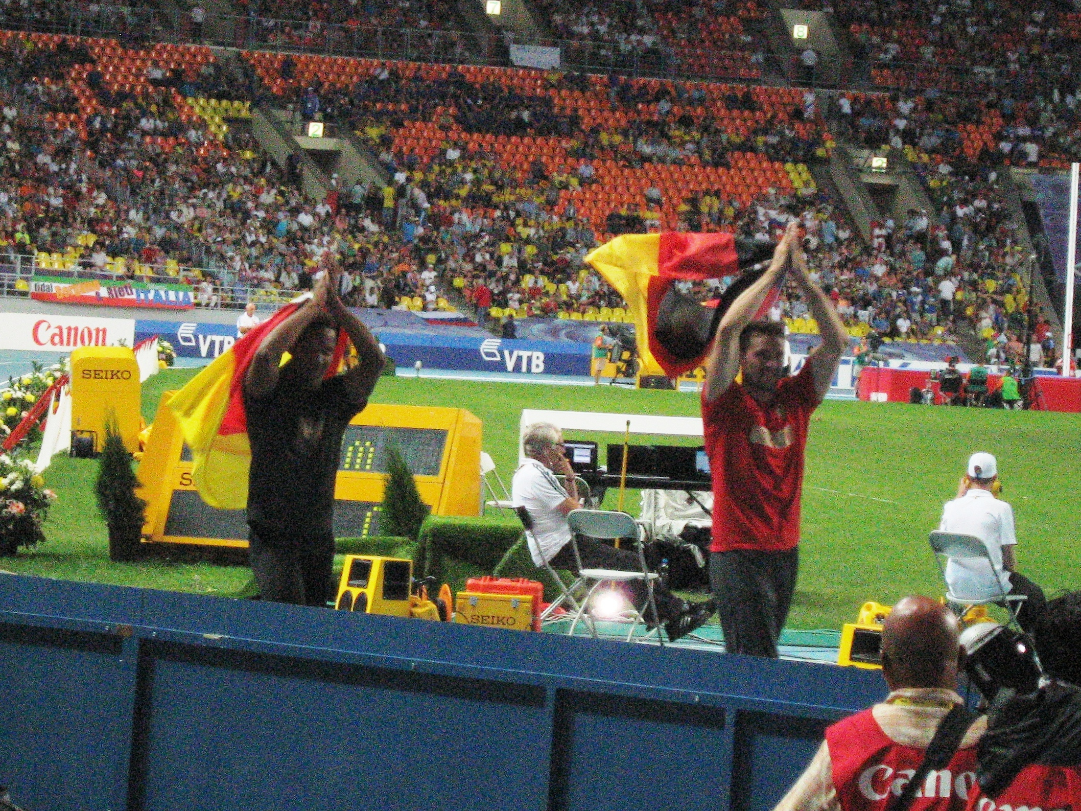 The second day of the World Championships in Athletics in Moscow 2013